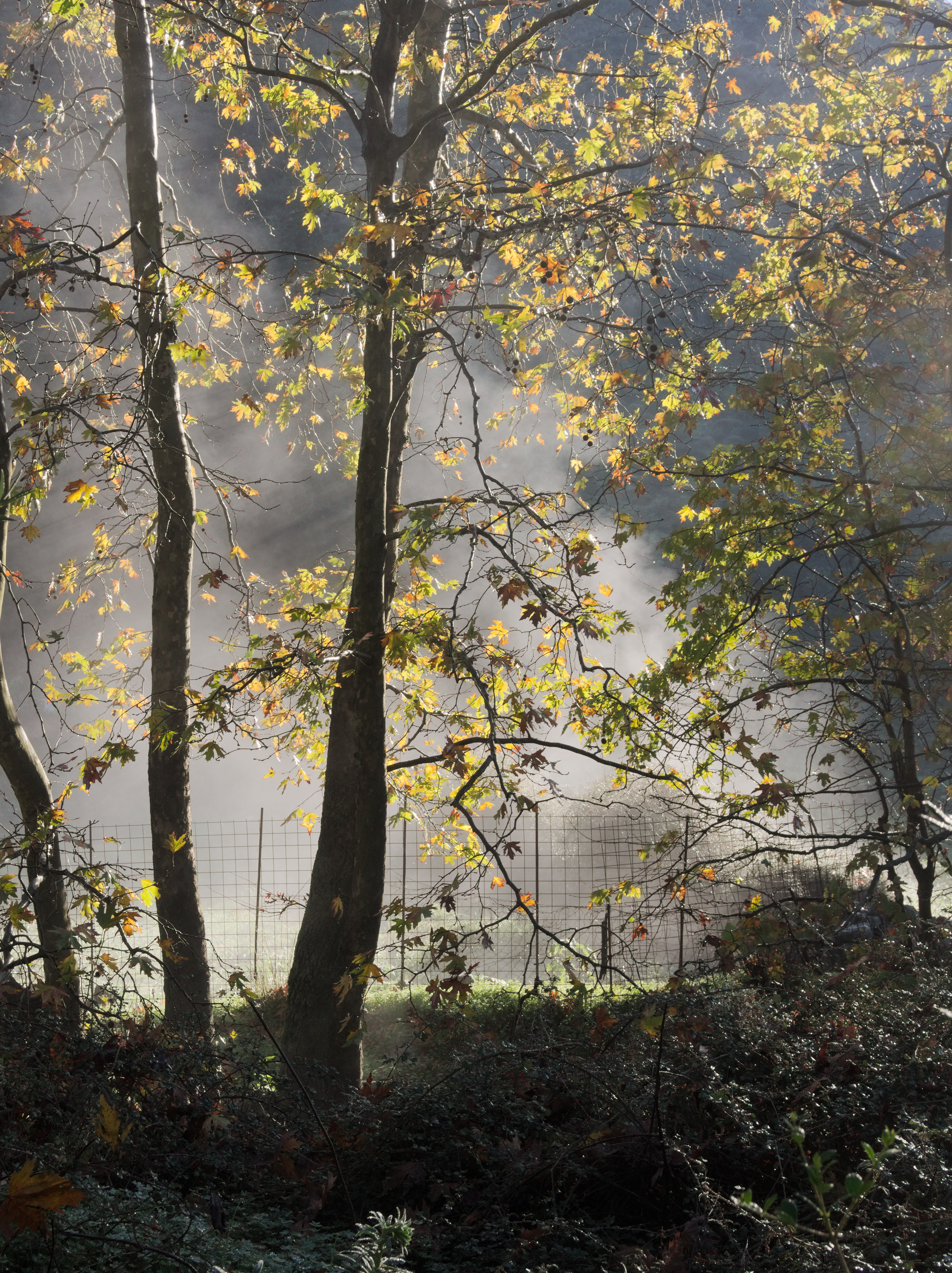 Platanus orientalis in Theriso gorge, on a winter's moring This is a photography of Natura 2000 protected area with ID GR4340007